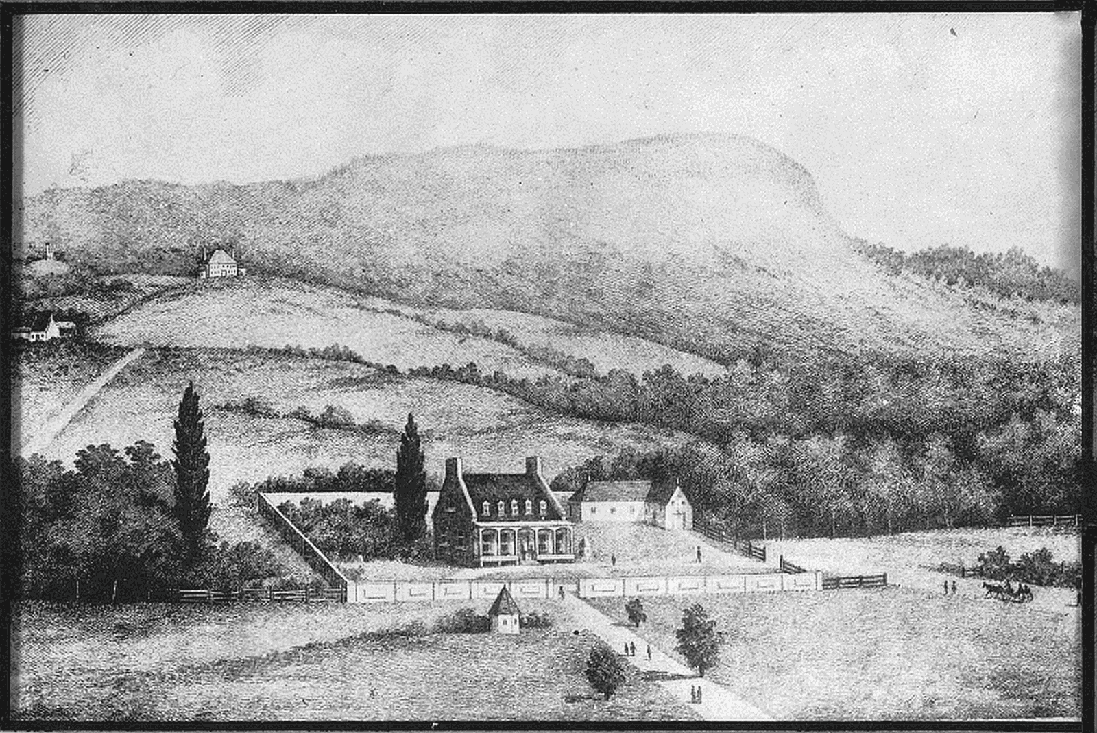 Burnside Place, James McGill's country home, Montreal, Canada.